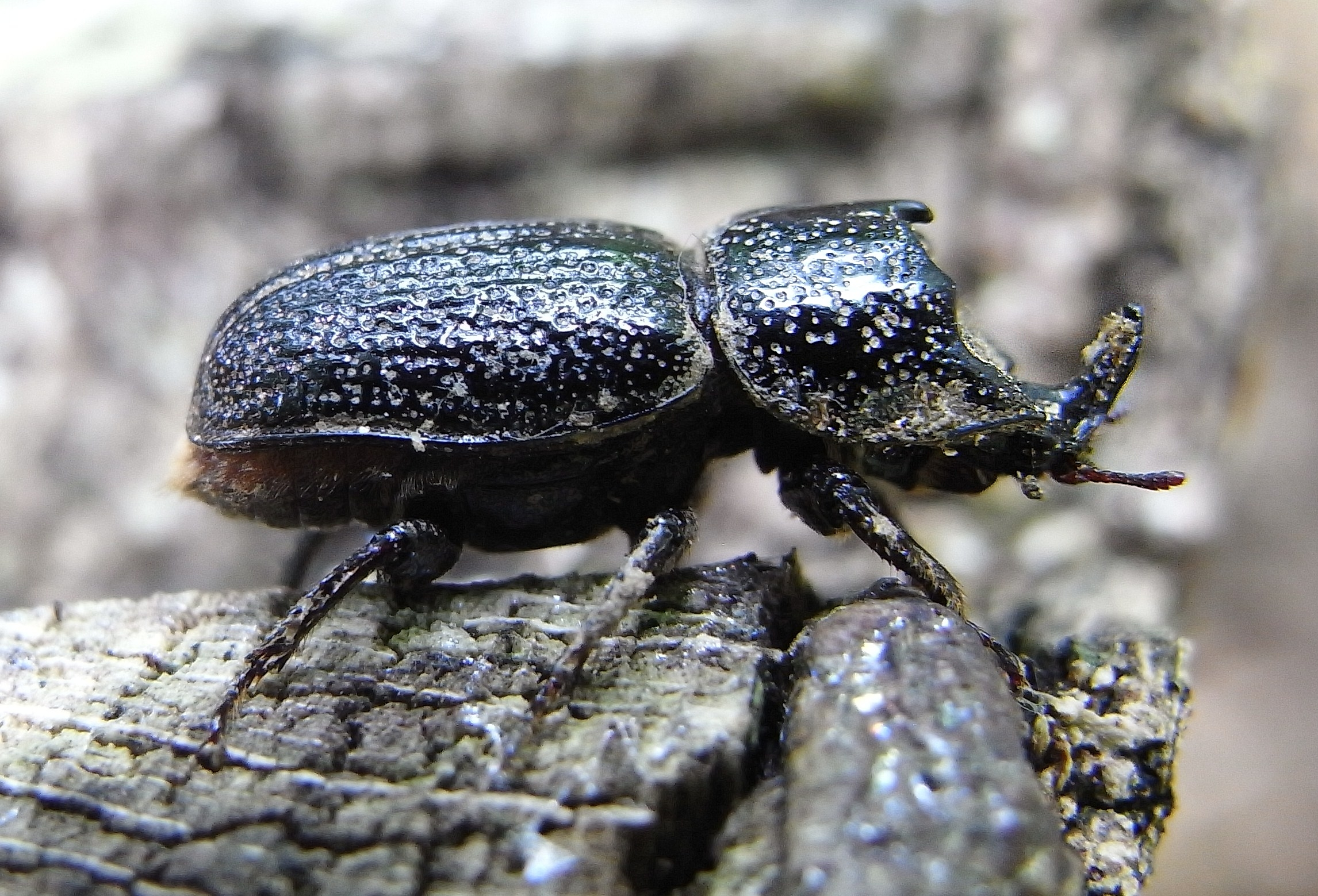 Sinodendron cylindricum from Matra-mountains in Hungary at 2010-06-30Ricoh R8